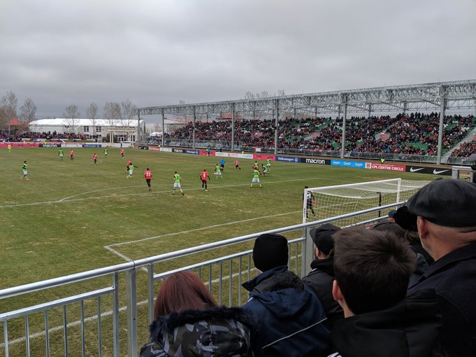 View from Section 203 on May 4, 2019. Cavalry FC home opener vs York 9 FC